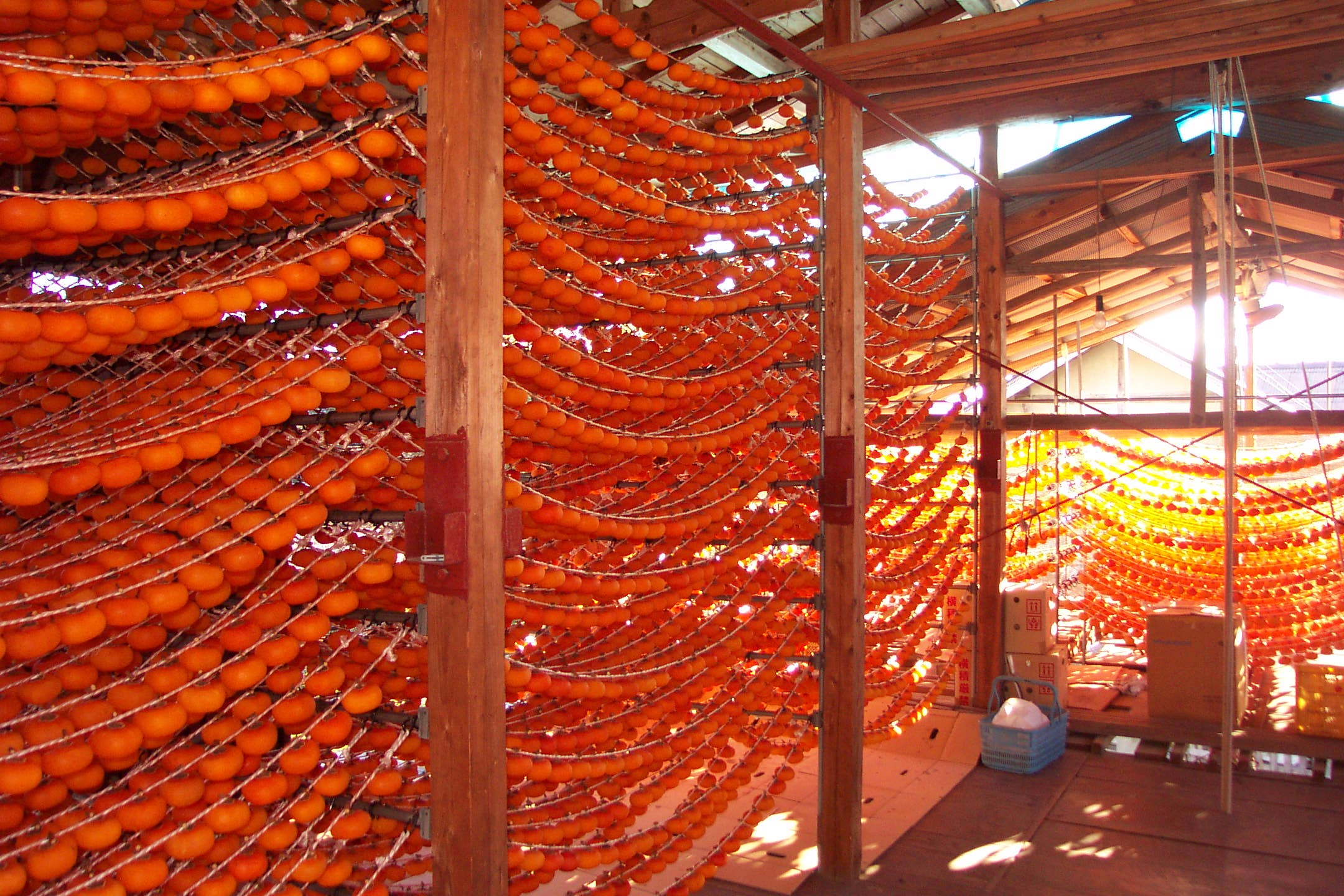 "柿ばせ"(Ka-ki-ba-se) which is a room or house to make あんぽ柿(A-n-po-ga-ki), a kind of sulfur-dried Persimmon, made in Fukushima, Japan. See also Image:Ampo02.JPG.